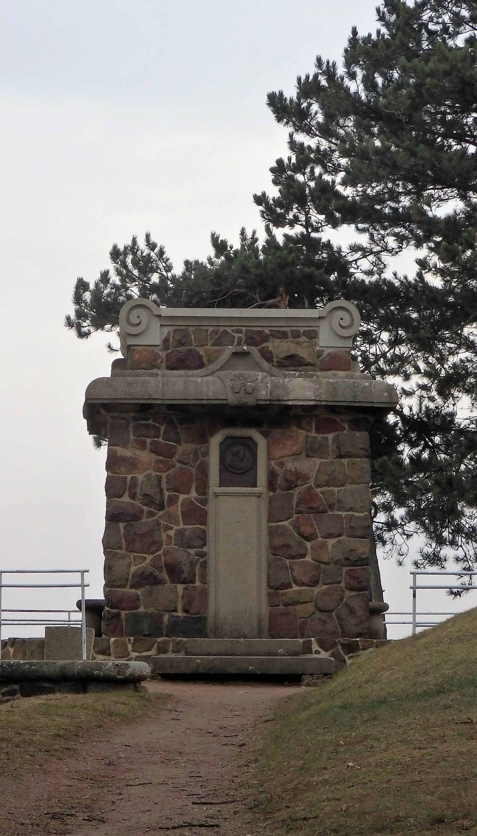 The Bismarck tower located in Cossebaude (quarter of Dresden, Germany).